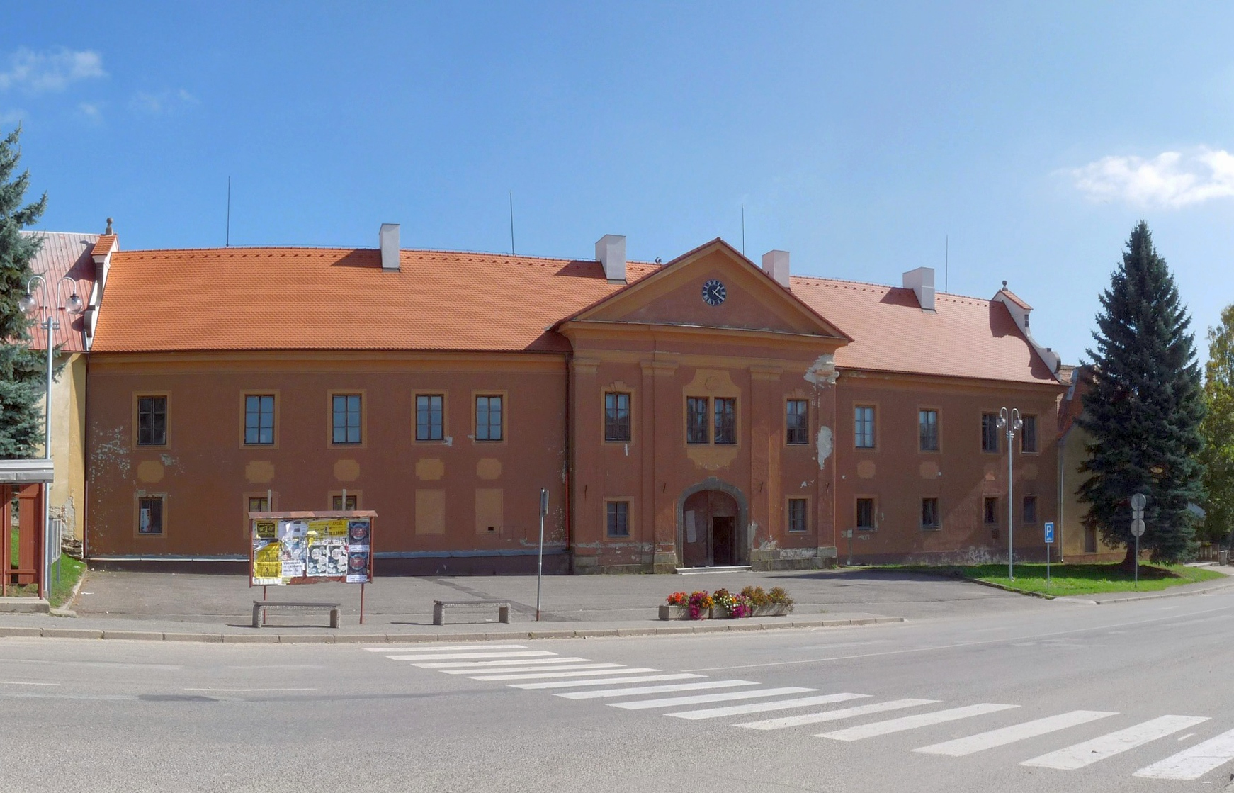 Castle in the village of Dříteň, České Budějovice District, South Bohemian Region, Czech Republic.